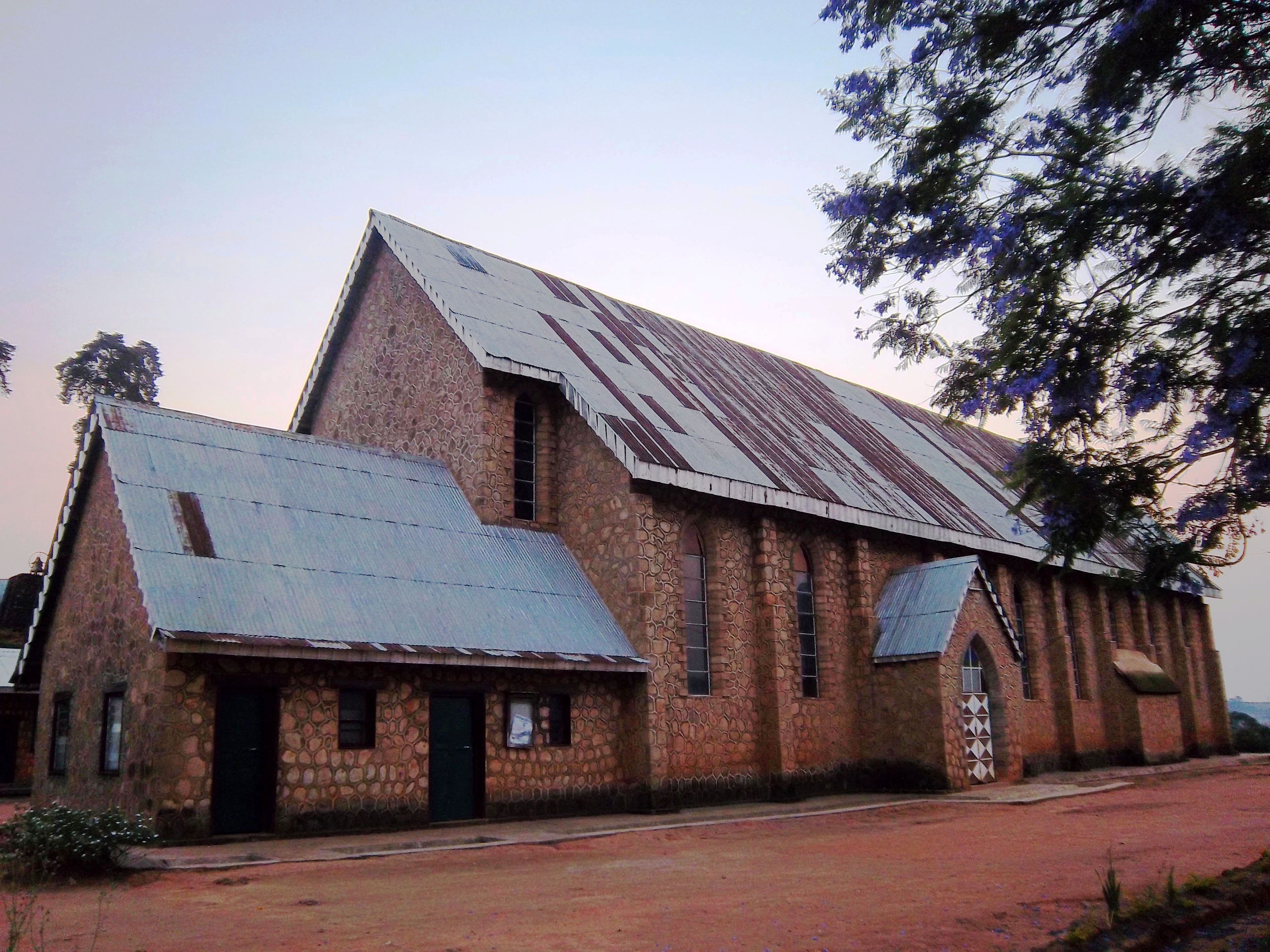 Na church this for Tabenken Parish.